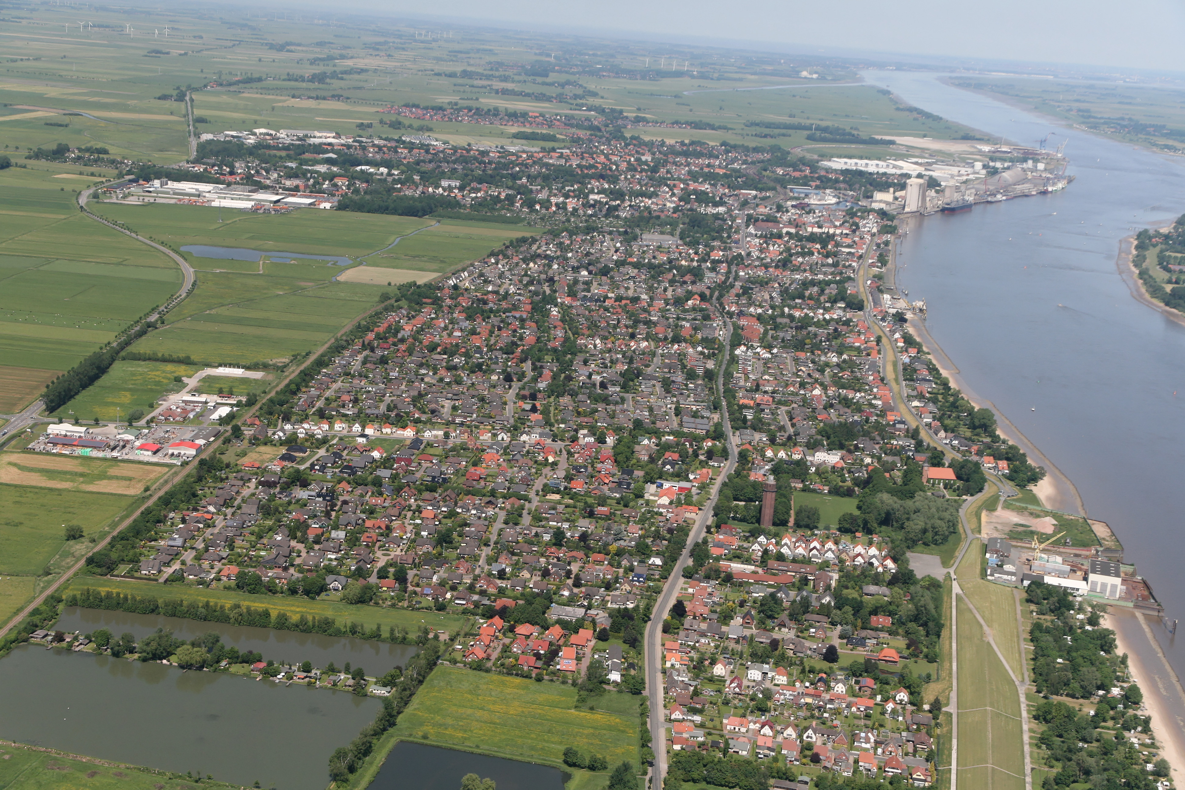 An aerial photograph of Brake (Unterweser).